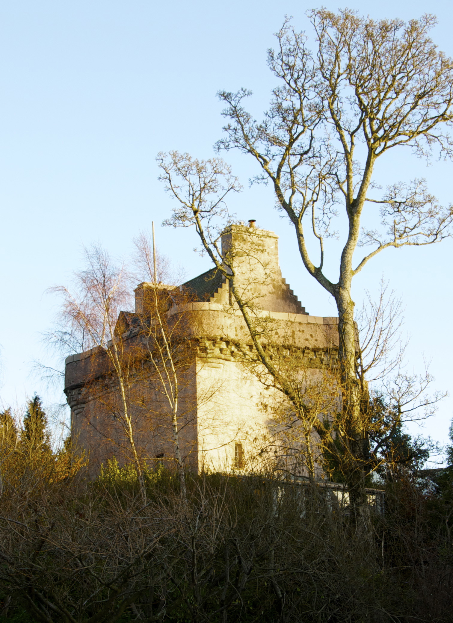 Castle Levan in Gourock, Inverclyde, Scotland